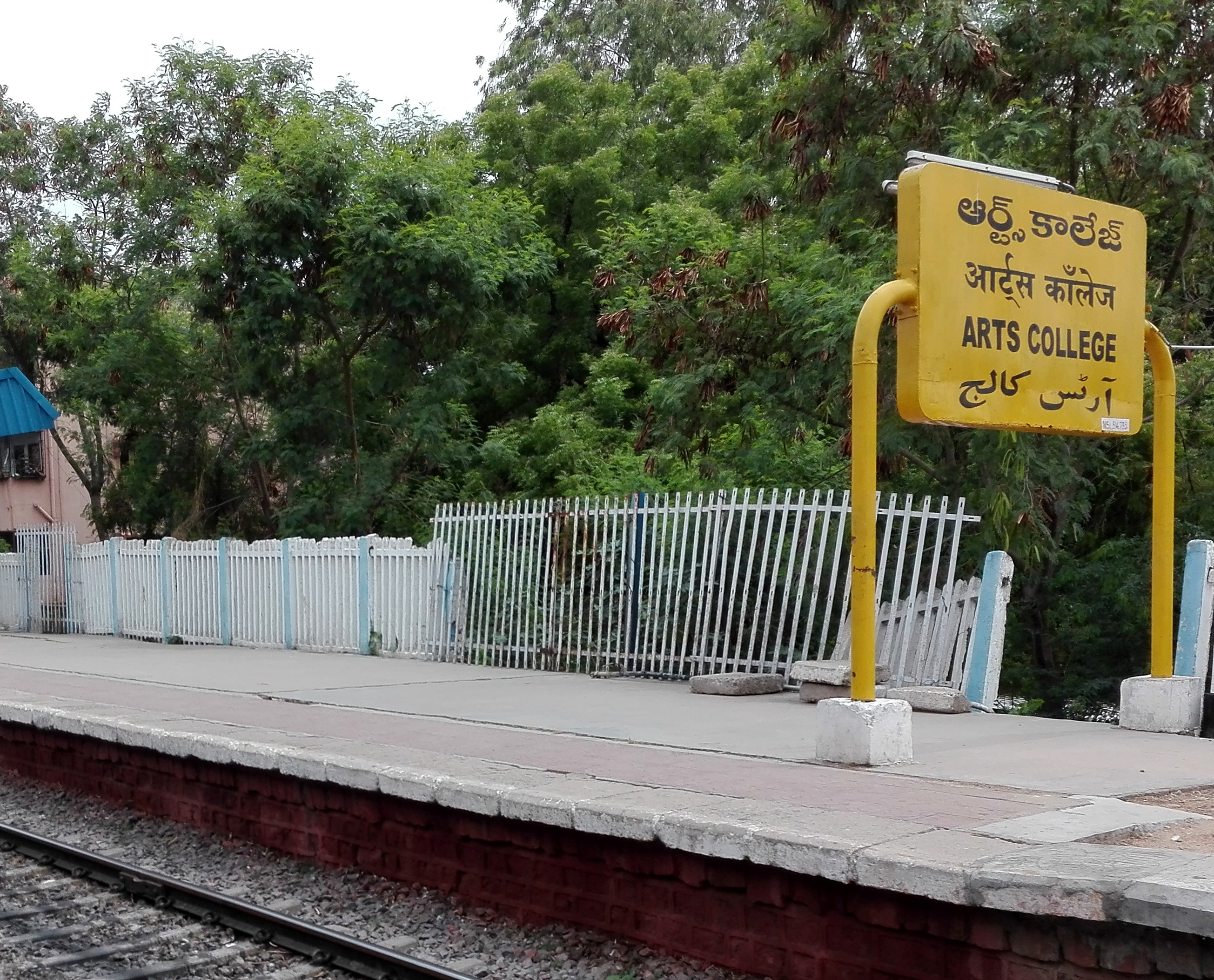 Arts College MMTS Railway station North end near Osmania University, Hyderabad